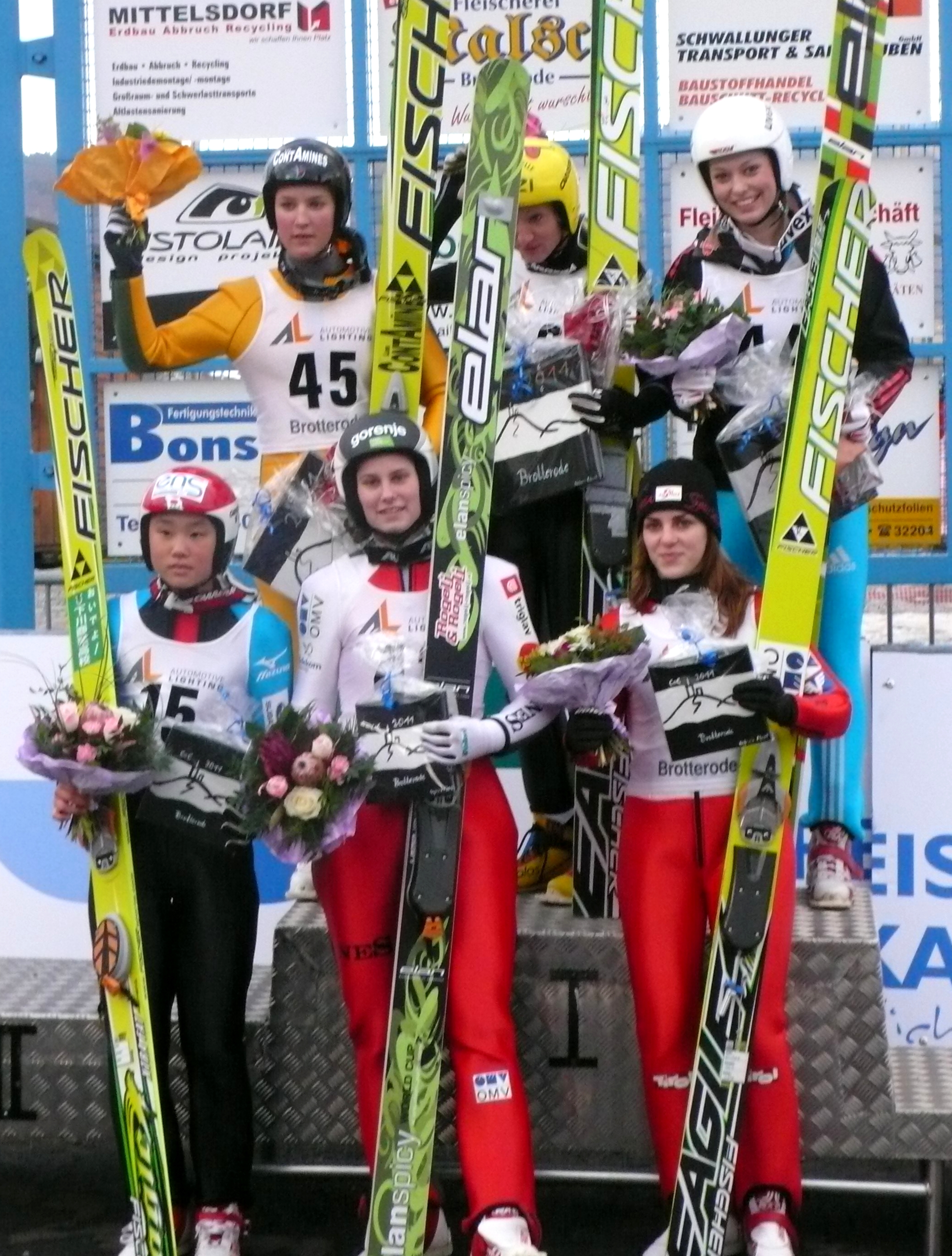 Daniela Iraschko 1st, Coline Mattel 2nd, Melanie Faisst 3rd, Yuki Ito 4th, Eva Logar 5th, and Cornelia Roider 6th at Brotterode on the 2011-02-06